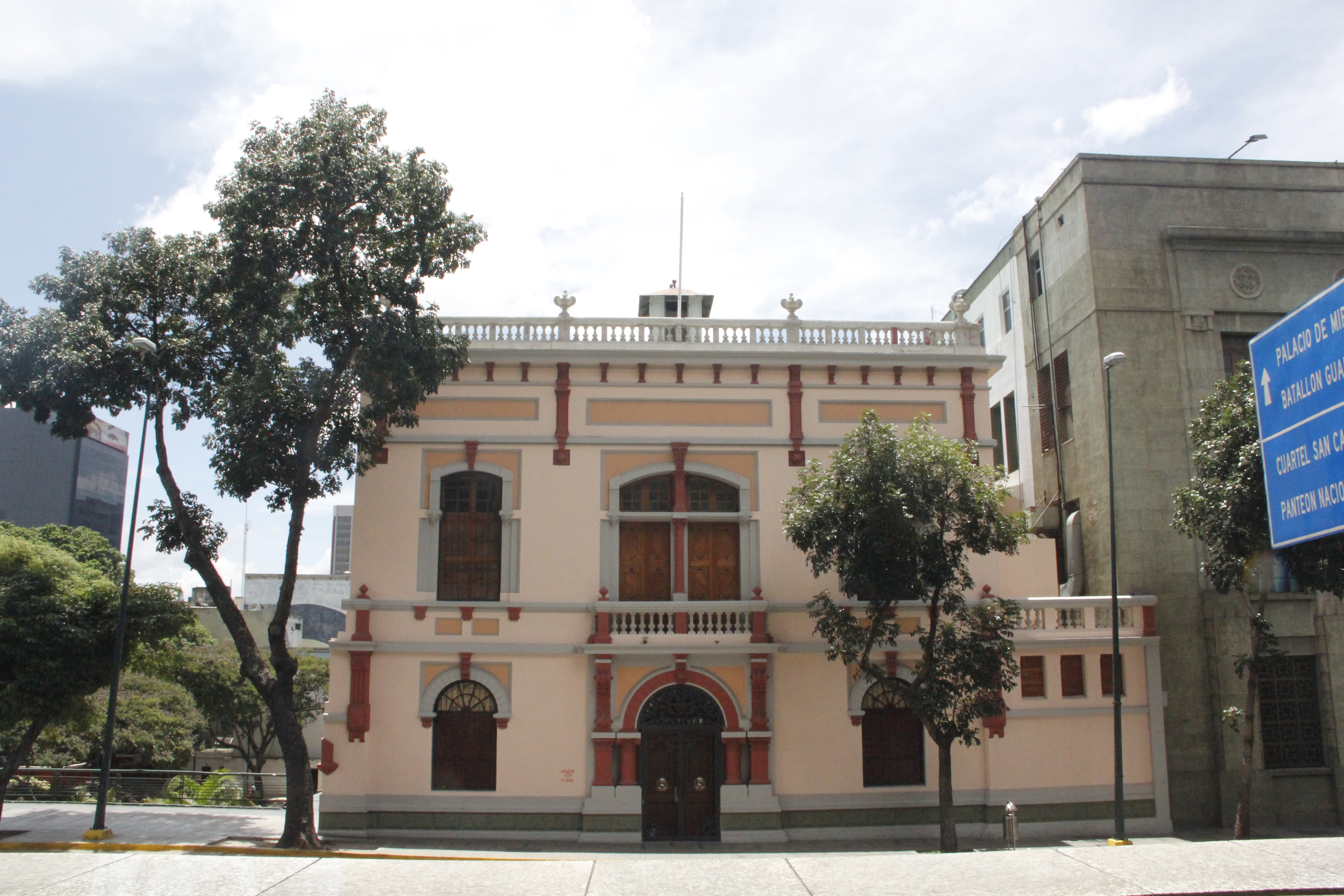 General Archive of the Nation of Venezuela. The AGN has its origins in the creation of the Public Registry, in the year 1836. By decree of General José Antonio Páez, it was ordered that the documentation of a historical nature, deposited in the public offices, should go to the National Archive and the Public Registry, on the occasion of the commemoration of the first Centenary of Independence, was ordered by decree of 19 of March of 1910, the construction of several public works, among which was chosen a building for the National Archive located in the Urdaneta avenue, between the corners of Carmelitas and Santa Capilla. Its inauguration was celebrated 19 of April of 1911. In this enclosure, the National Archive worked during 96 years.